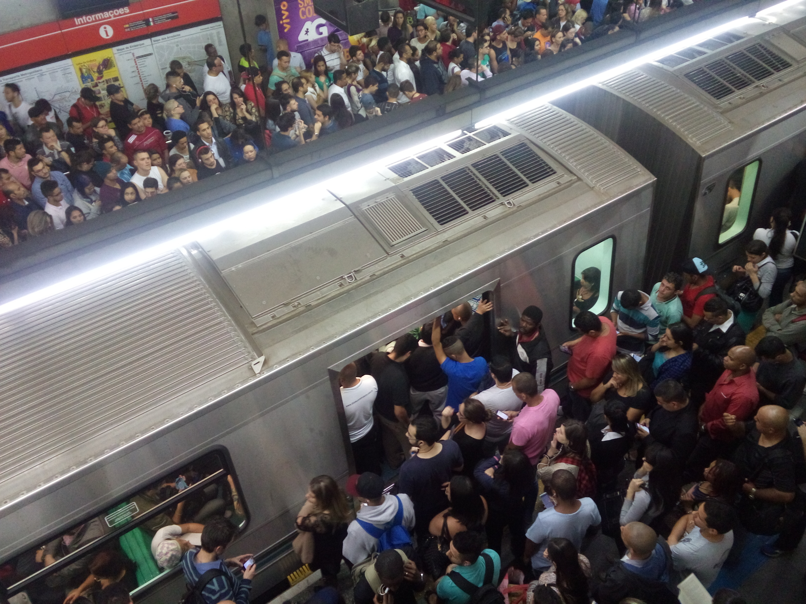 São Paulo metro, Palmeiras Barrafunda station